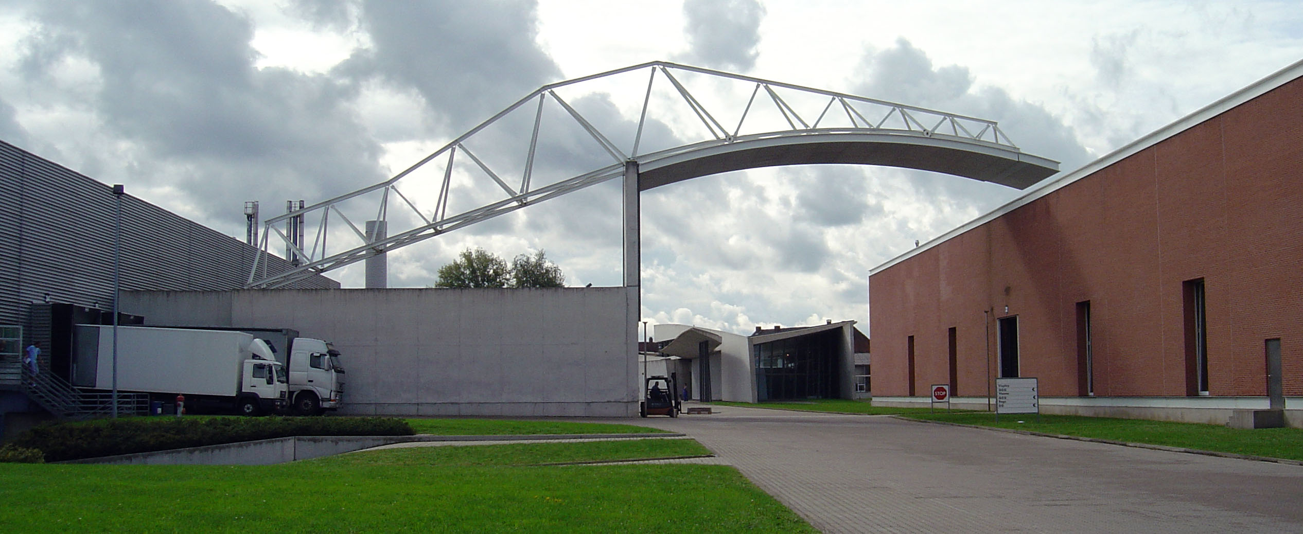 To the right, a Vitra factory hall by Álvaro Siza in Weil am Rhein, Germany. The passage cover can be lowered to a height of 4 m in case of rain, but is usually raised so as not to obstruct the view on the fire station by Zaha Hadid in the background. To the left, the older hall by Nicholas Grimshaw.